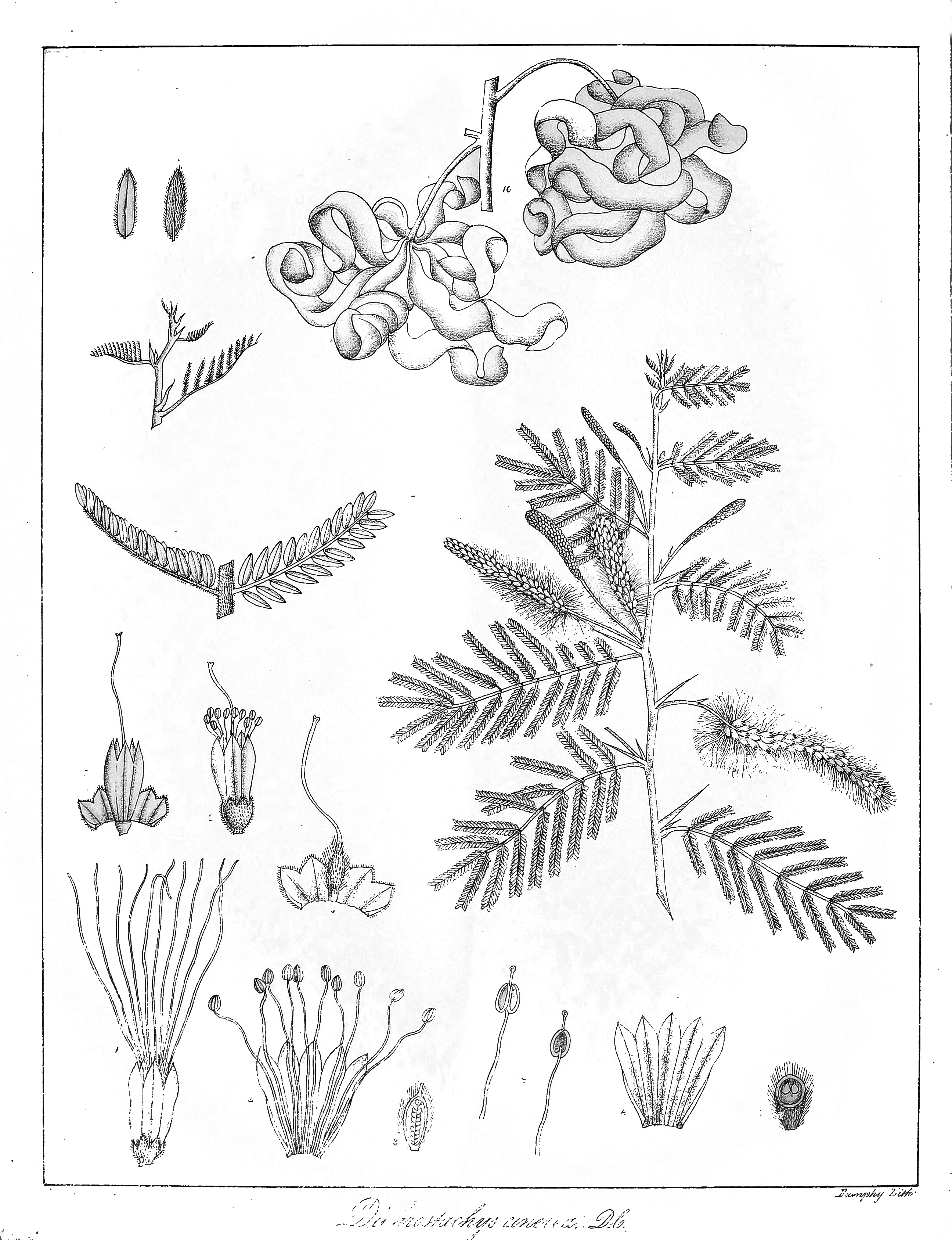 Dichrostachys cinerea